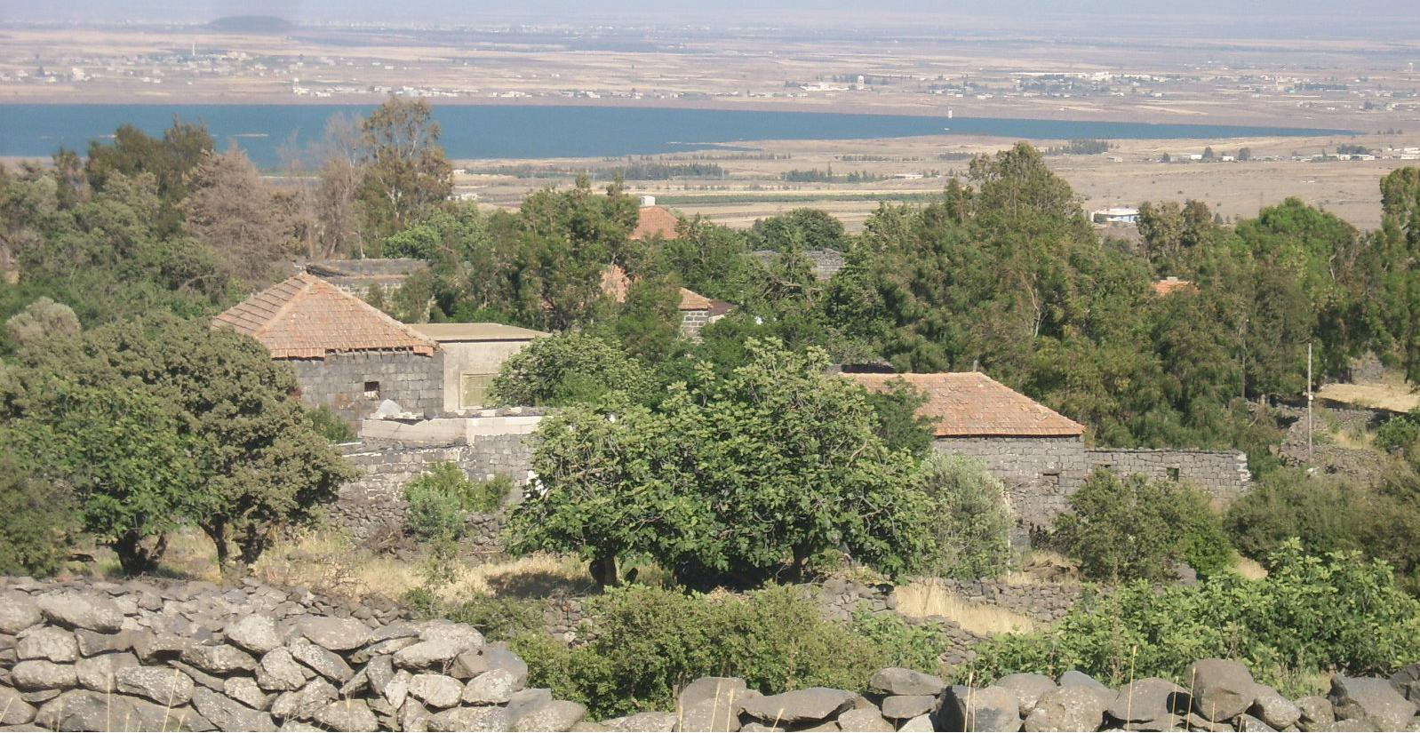 The village of Bareeqa, Syria, qunaitra, Golan Hights